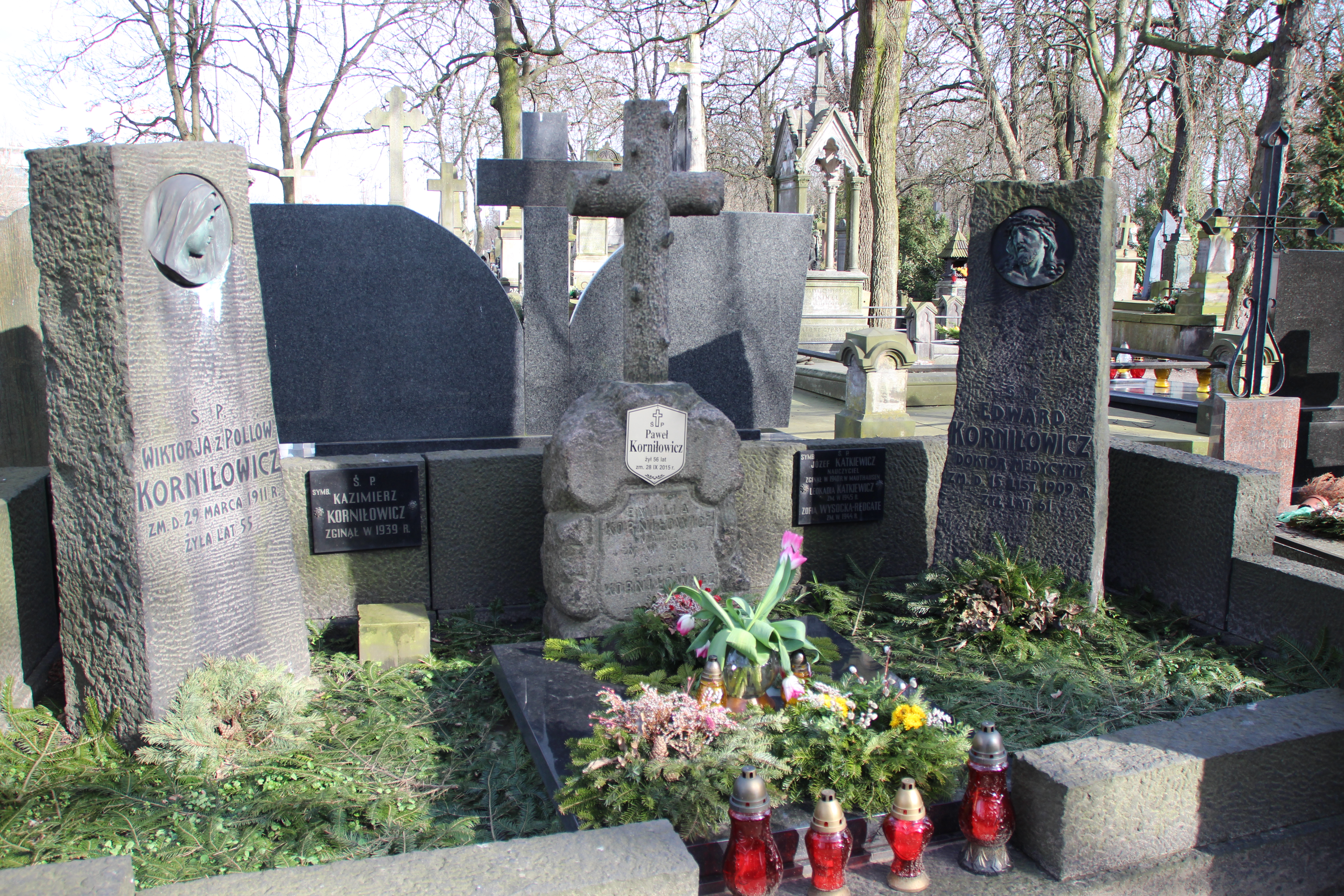 Grave of Korniłowicz Family, Powazki Cemetery, Warsaw